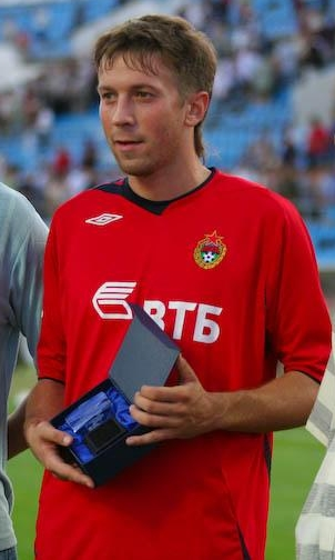 Anton Grigoryev as a player of PFC CSKA Moscow